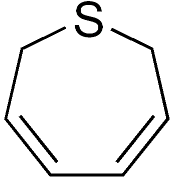 chemical structure of 2,7-dihydrothiepine (dihydrothiepin)